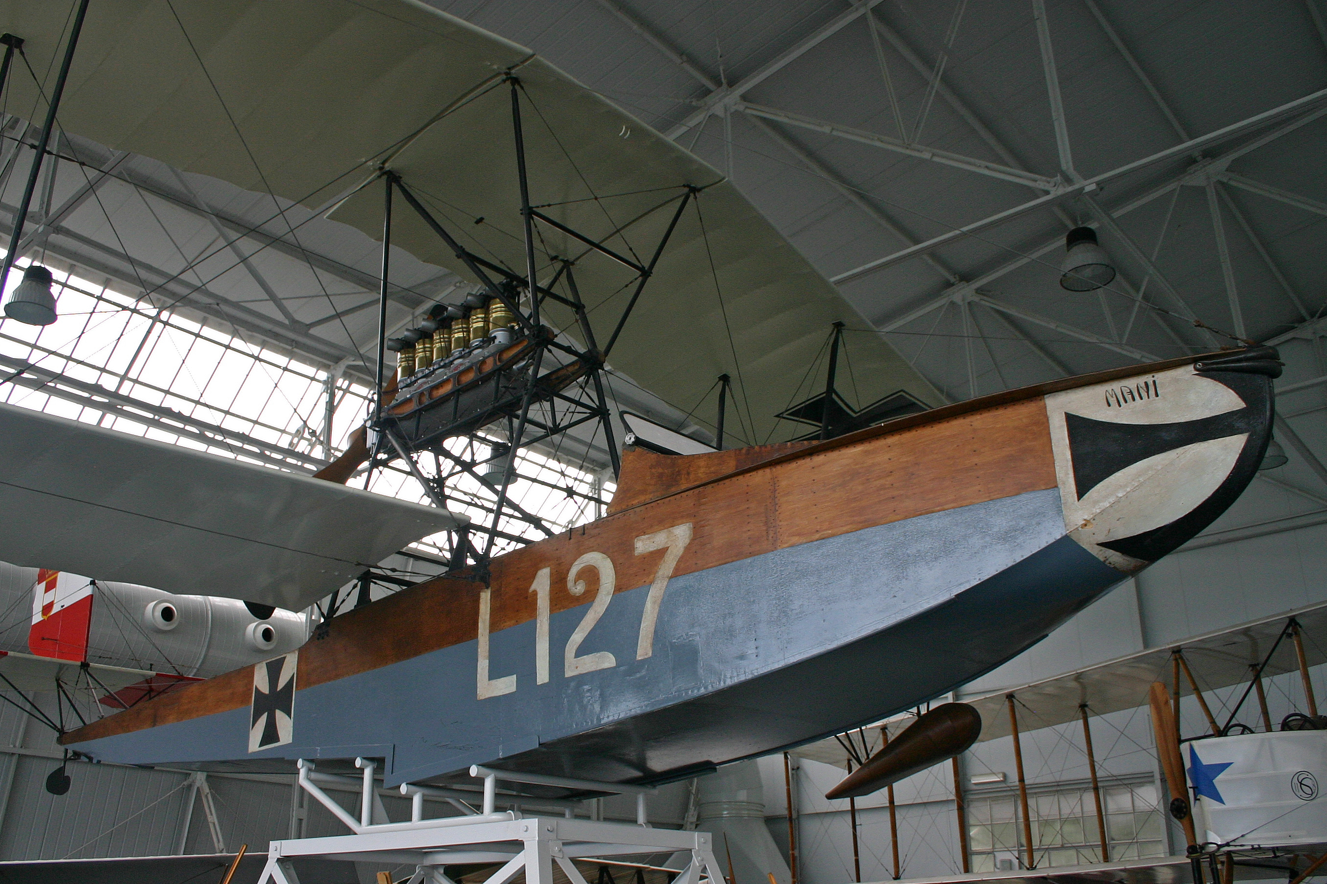 Displayed in hangar TROSTER. Used in raids against Italian bases before being flown to Italy by defectors on 3rd June 1918. Amazingly, it has survived in a very original condition.